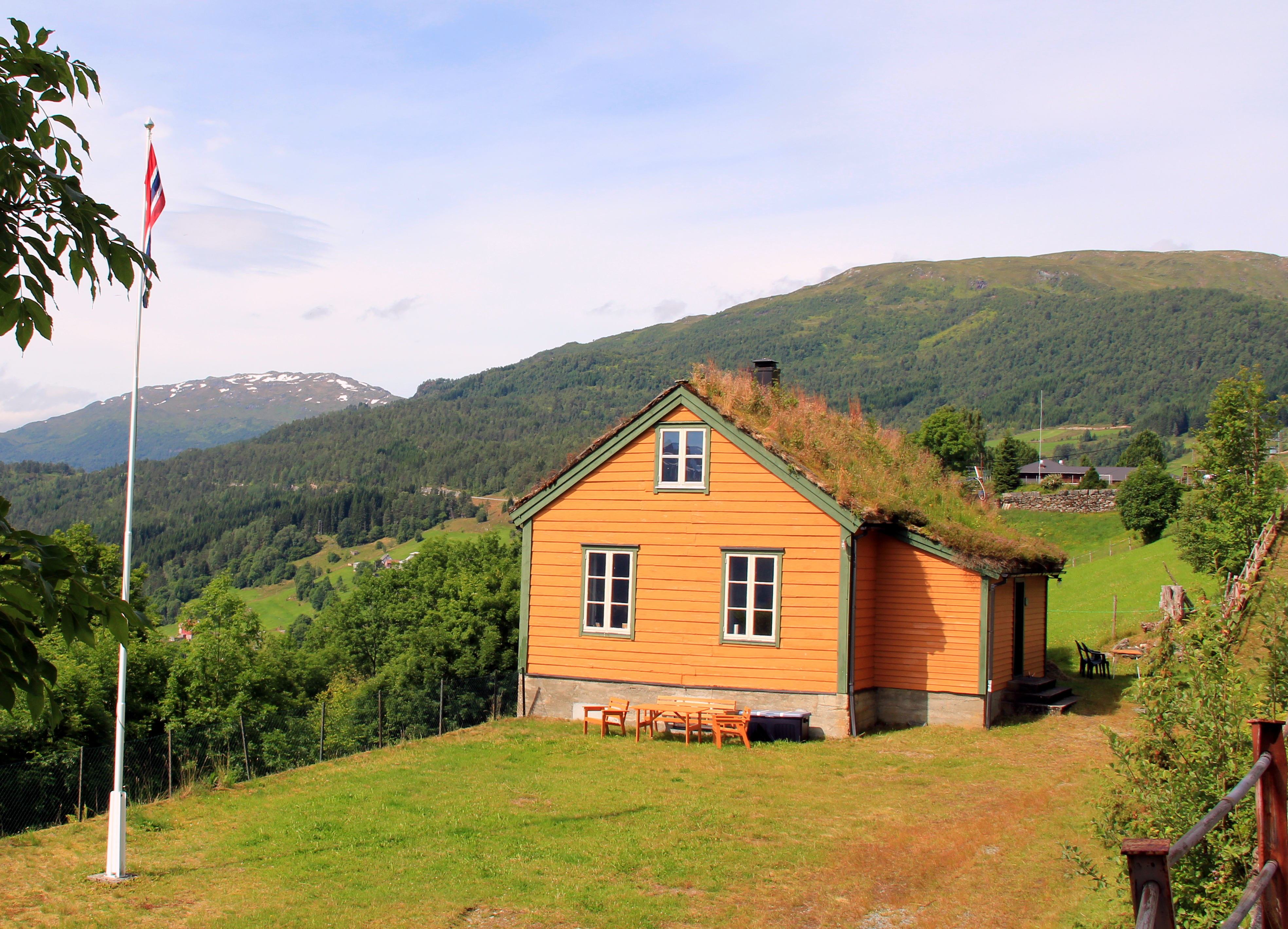 Gamle Rand skule, the old school in Rand, Stryn, Norway